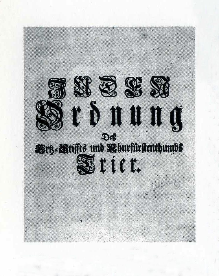 Laws for jewish people by order of archbishop Franz Ludwig von Pfalz-Neuburg in 1723